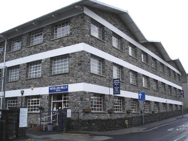 Trefriw Woollen Mills. In the centre of the village the Trefriw Woollen mill